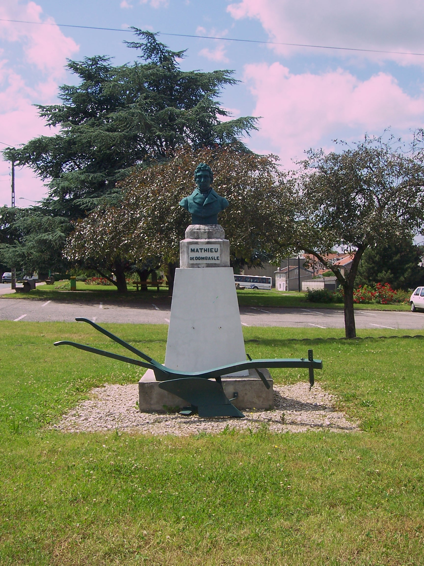 Bust of Mathieu de Dombasle, in Dombasle-sur-Meurthe.